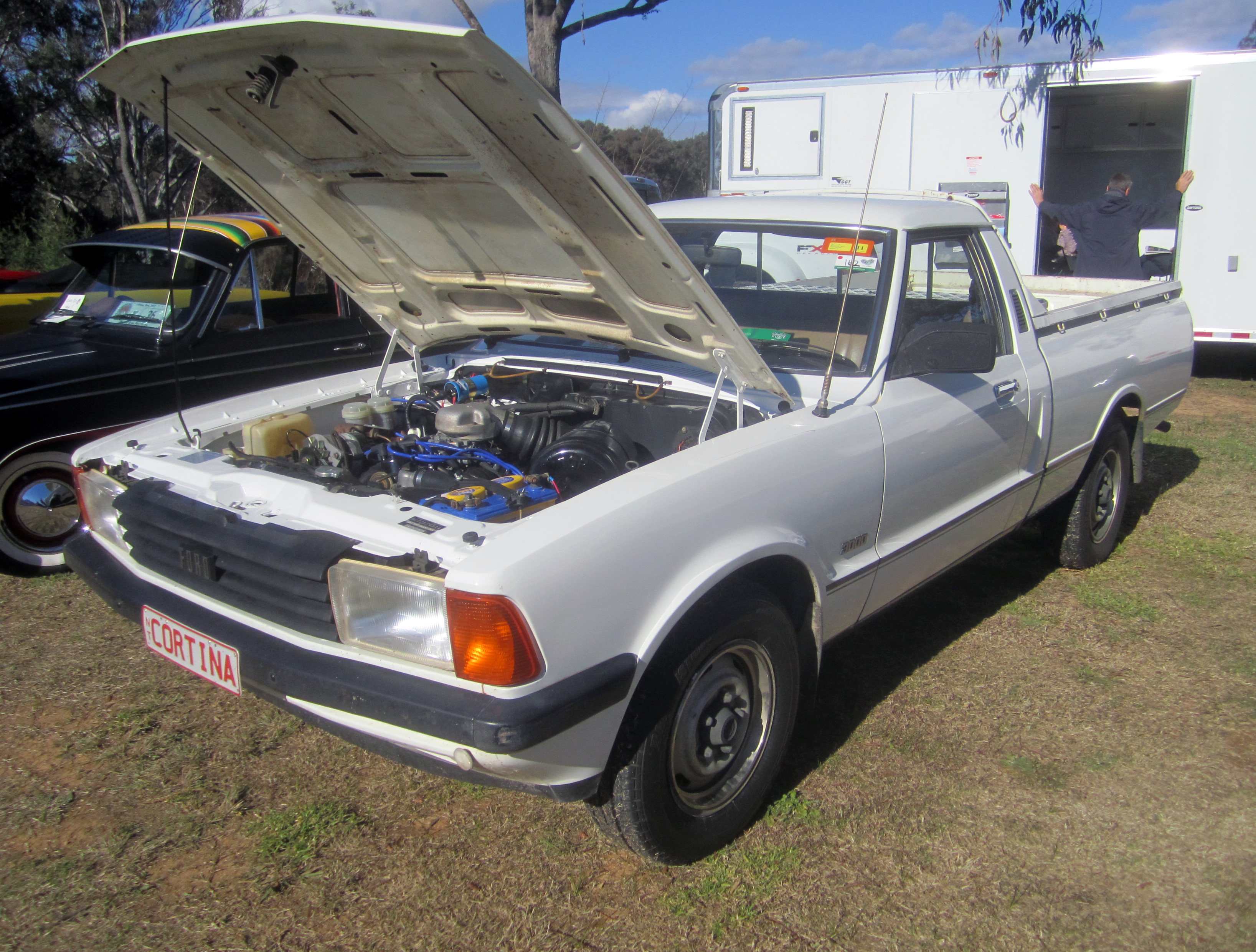 A 1981 Ford Cortina Mark V based "Bakkie" from South Africa, photographed at the 1st Cortina Nationals in Albury, Australia. These pickups were marketed as Ford 1-Tonners in South Africa. (See sales brochure for South African Ford 1-Tonner) The later (1982-1988) Ford P100 has a longer tray and was also exported to Europe.